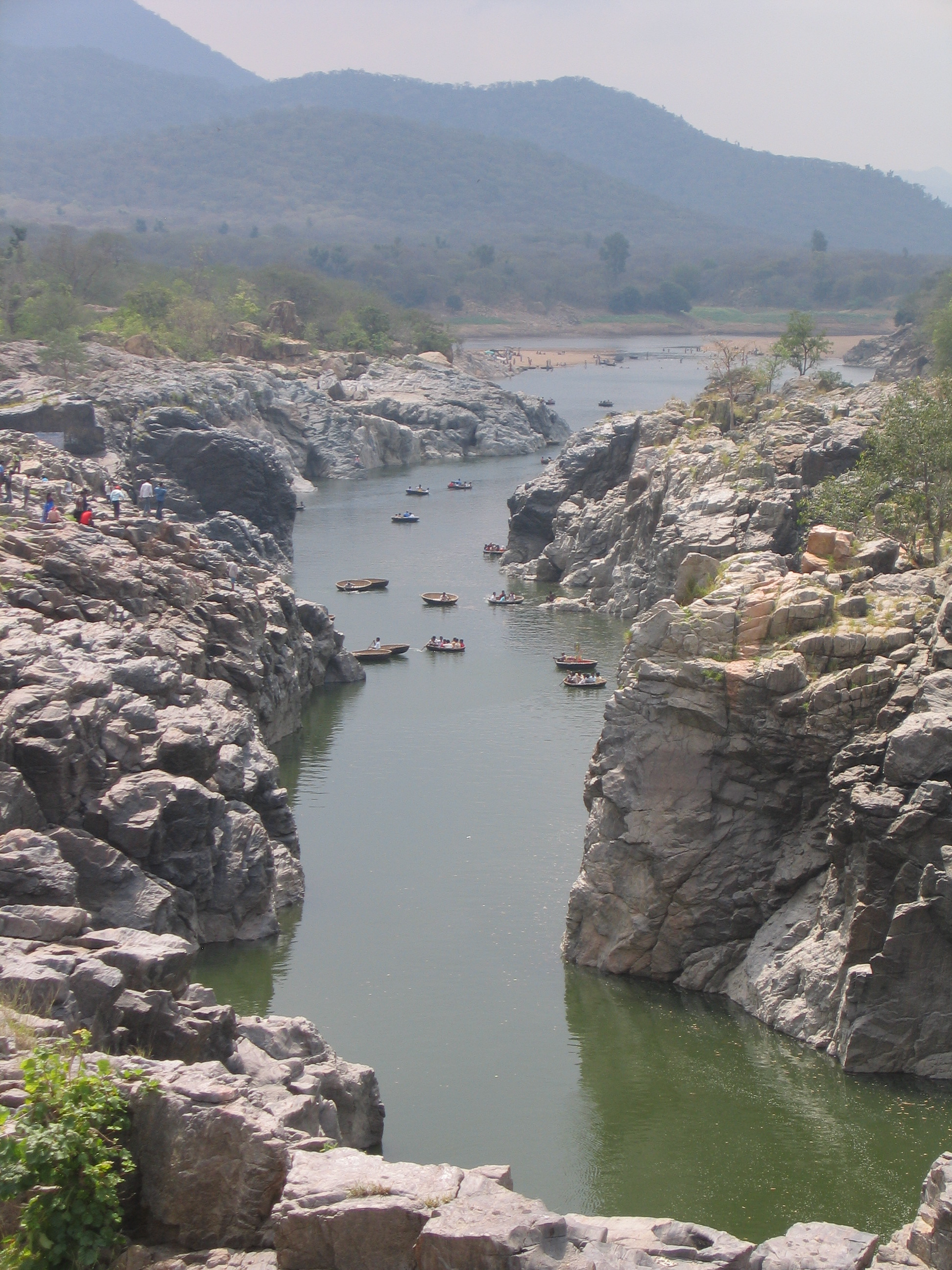 Gorge of Hogenakkal Falls during the dry-season (February 2008). Various round boats can be seen, some belonging to vendors. Also, at the mouth of the gorge on the left bank, improvised stalls can be found.